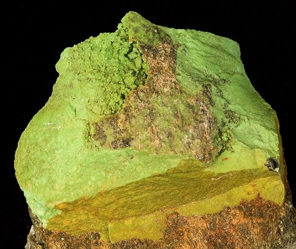 Gaspéite Locality: 132 North Mine, Widgiemooltha, Western Australia, Australia (Locality at ) Size: 6.0 x 4.4 x 2.6 cm. Gaspeite is a rare nickel, magnesium, iron carbonate. It seldom crystallizes. This rich and fine, two-sided specimen features striking, lime-green gaspeite in massive form. However, it also features a pocket with rounded aggregates of microcrystals, taking up the upper half of this fine piece. This very rich, highly representative specimen is from the 132 North Nickel Mine of Western Australia.